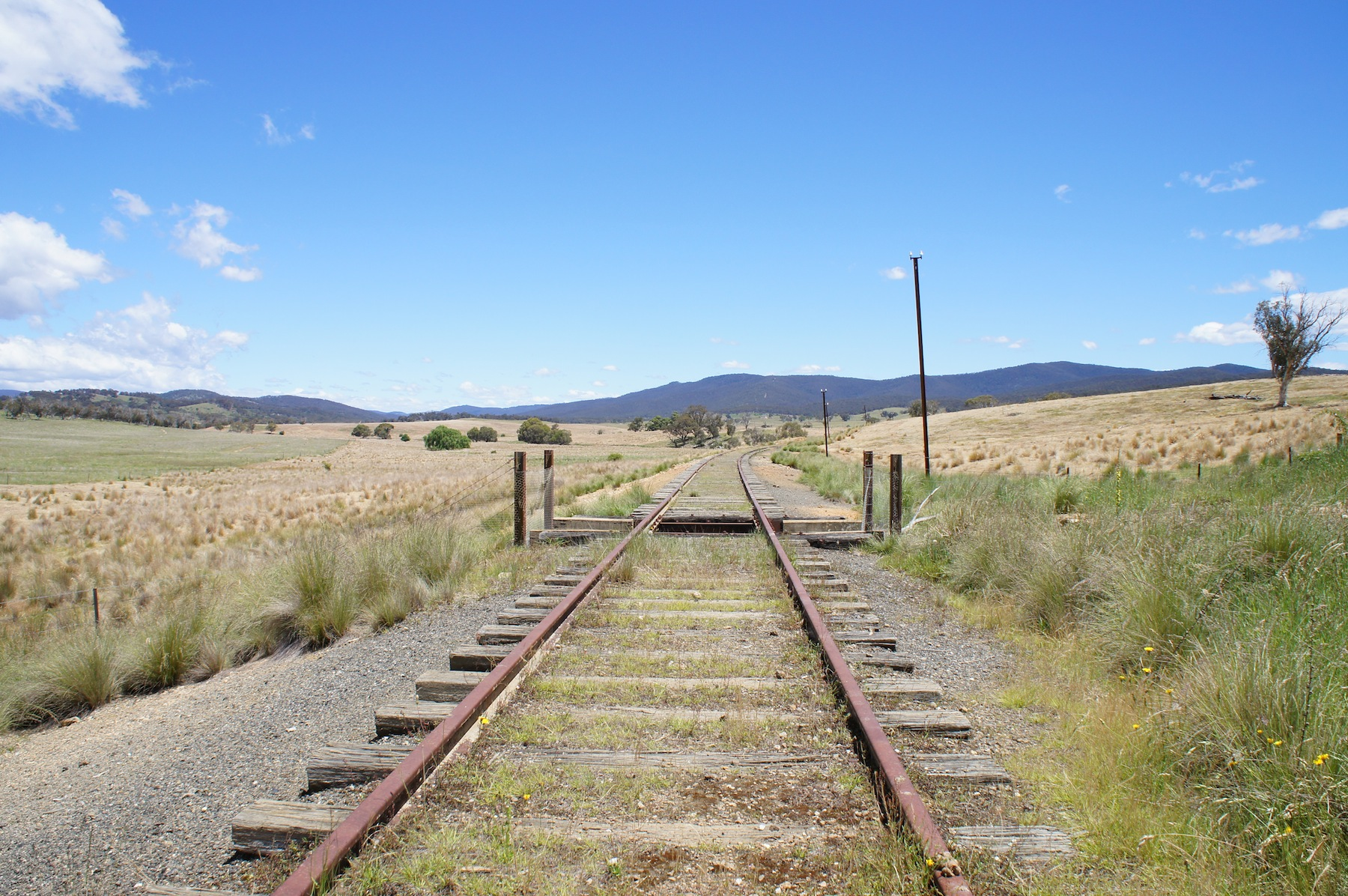 The Captains Flat branch line lies long-dormant - it is still, however, surprisingly accessible.